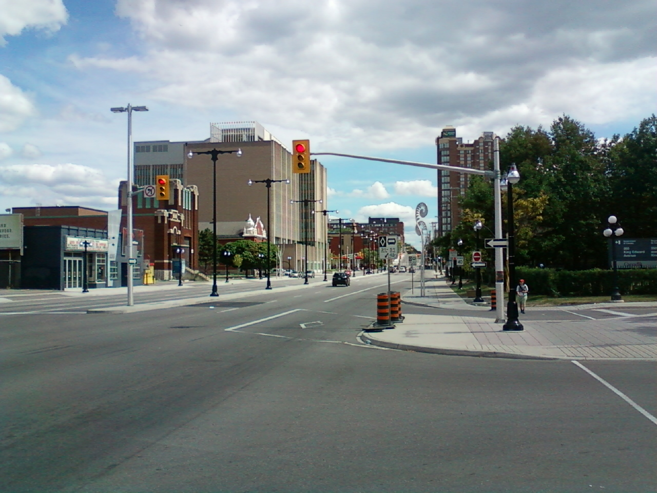 King Edward Avenue, Ottawa (2)